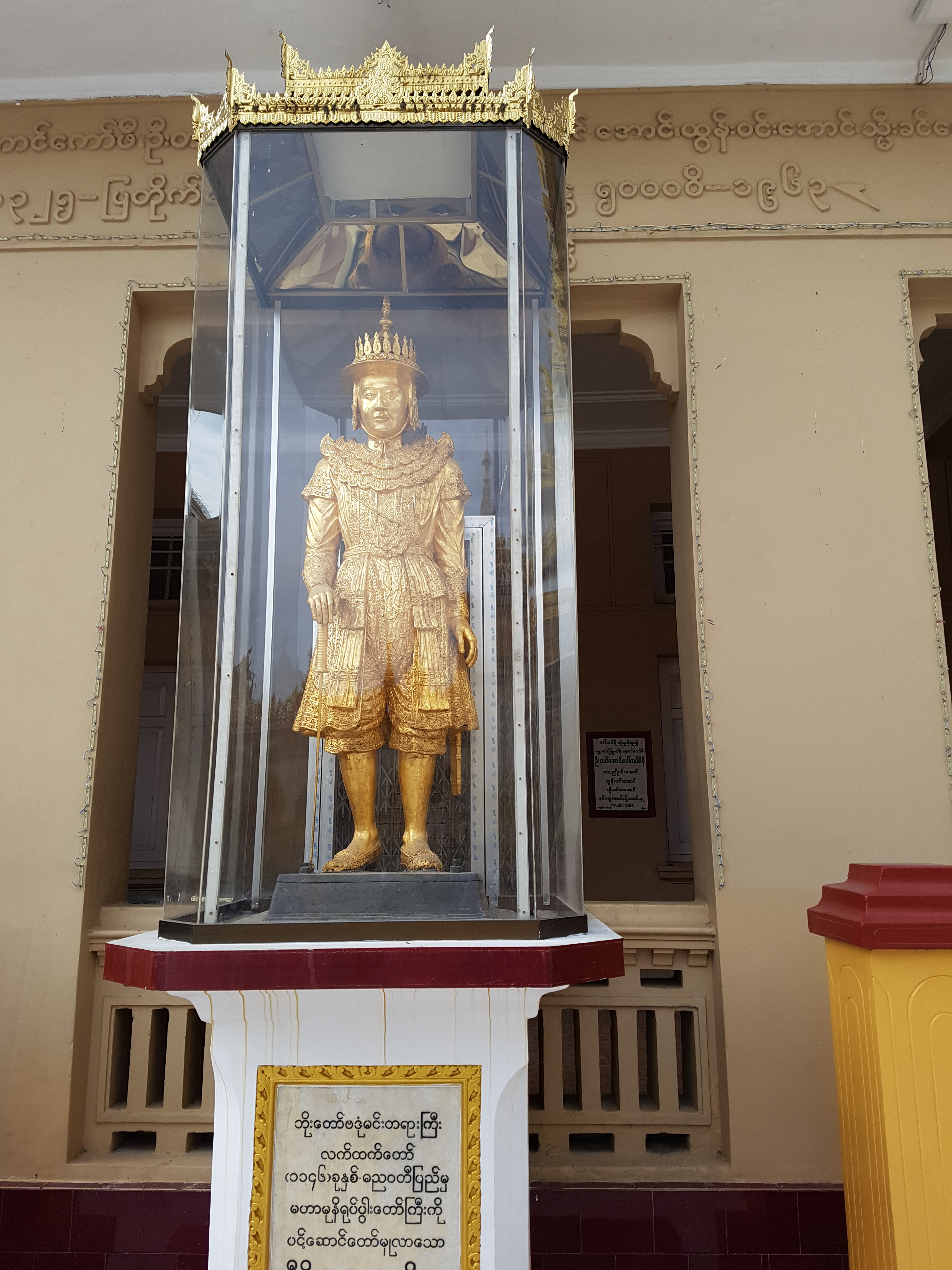 A statue of Crown Prince,Lord of Shwe Taung, U Paw Son of Badon Min (Bodawpaya) in the Mahamuni Buddha Temple in Mandalay